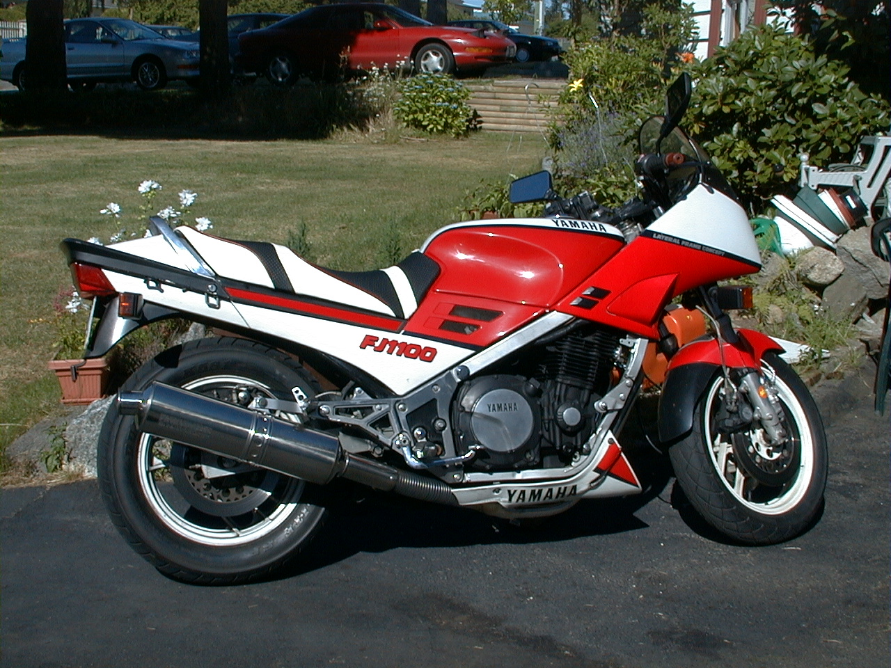 Right side view of my nearly original 1984 Yamaha FJ1100